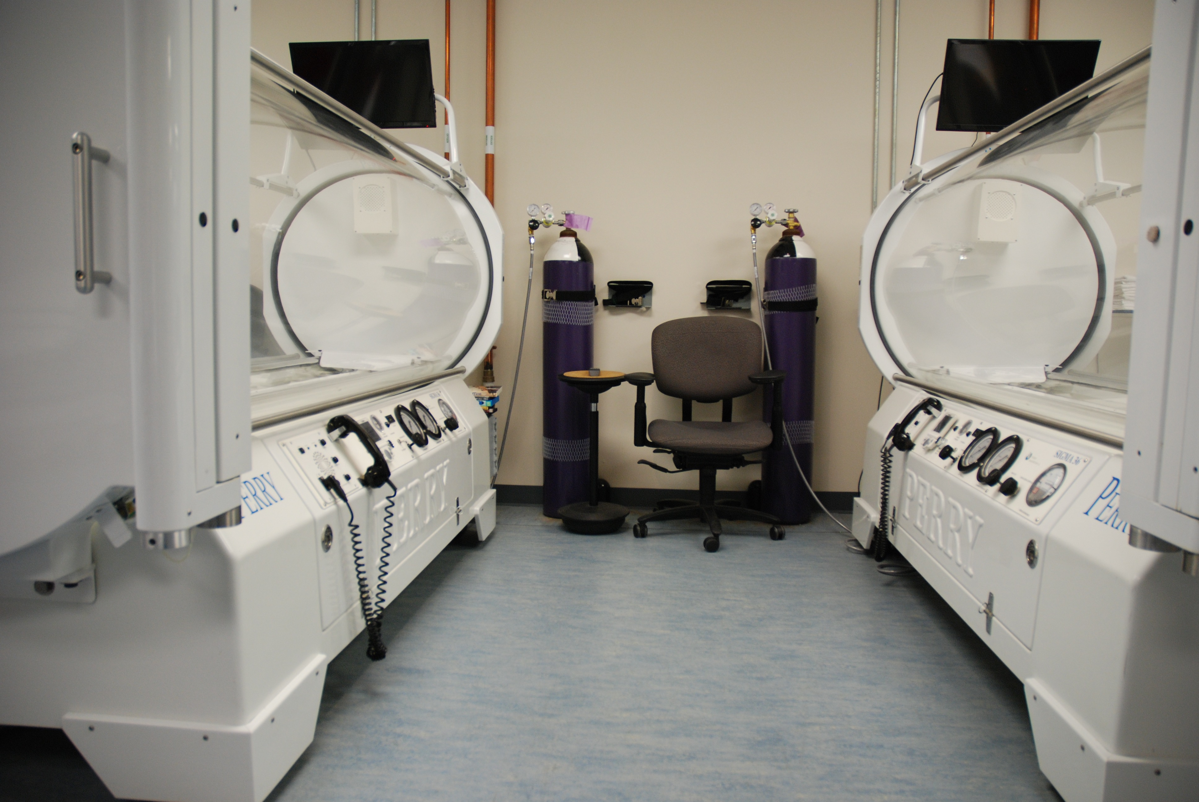 Two 36" Mono-place Hyperbaric Chambers manufactured by Perry Baromedical, used to facilitate 100% medical grade oxygen to heal and reduce inflammatory processes within the body.